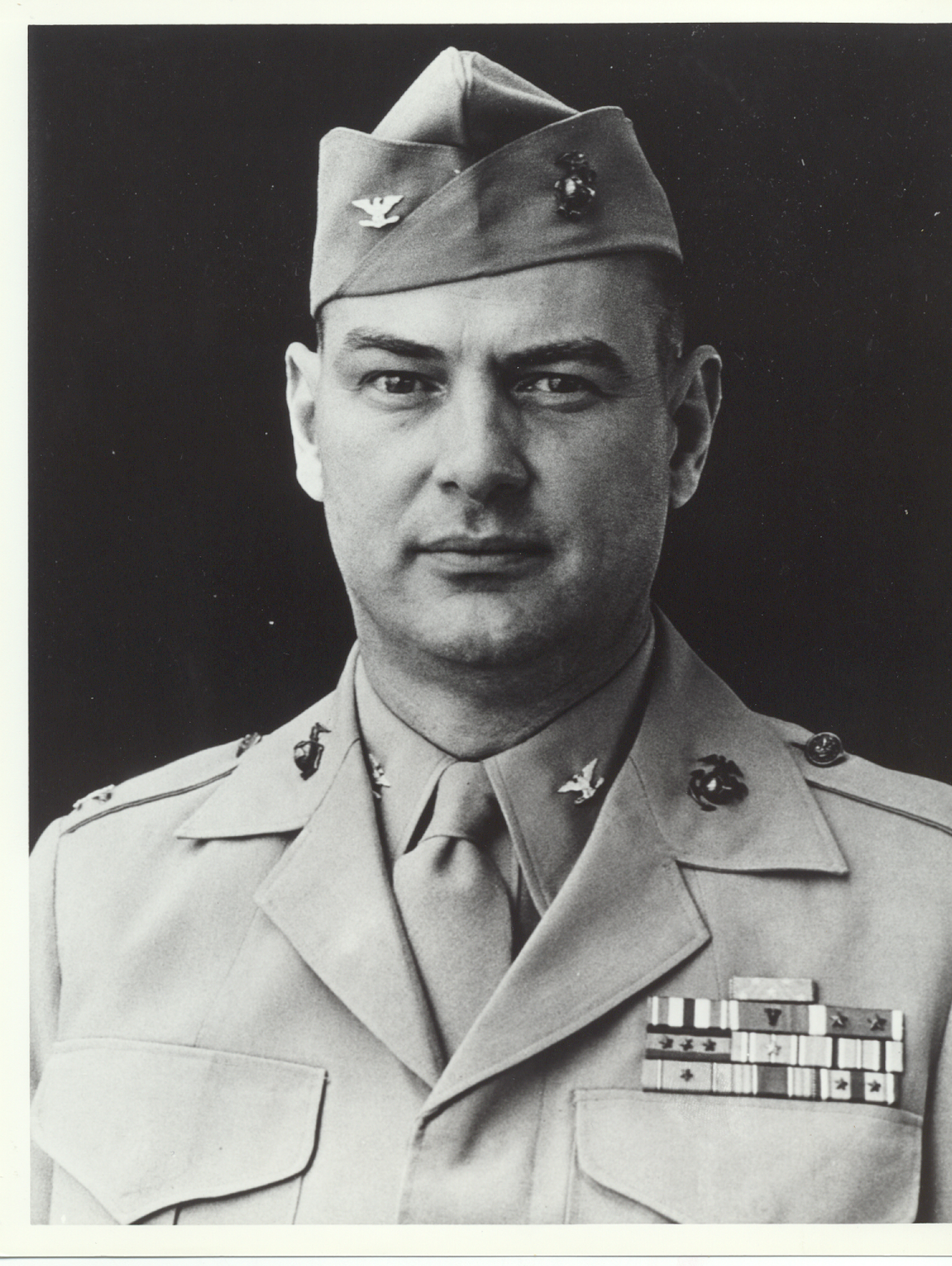 Justice M. Chambers, USMC, Medal of Honor recipient; photo from official Marine Corps biography